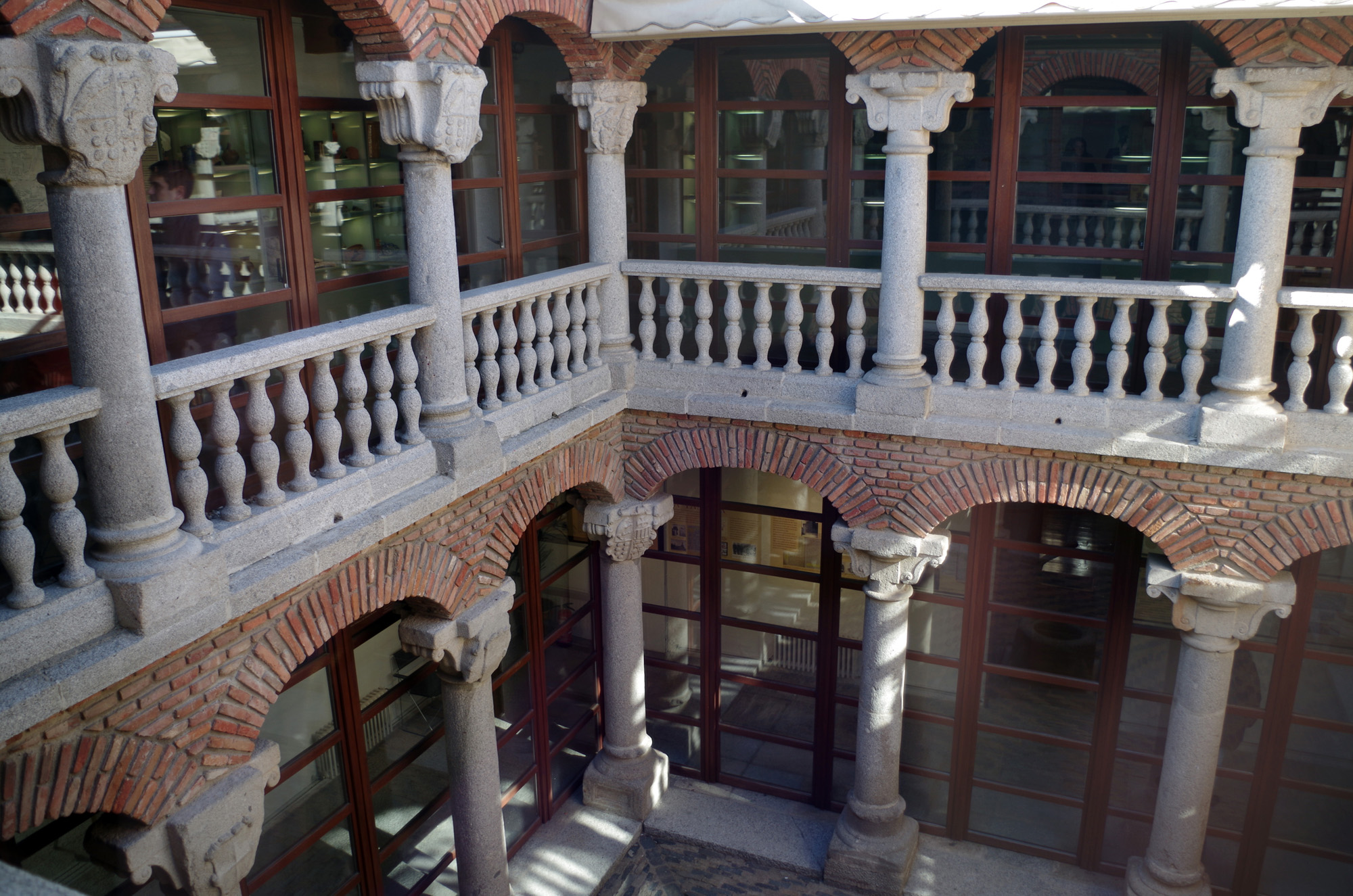 Courtyard in Ávila Museum (Casa de los Deanes building) (Ávila, Spain).